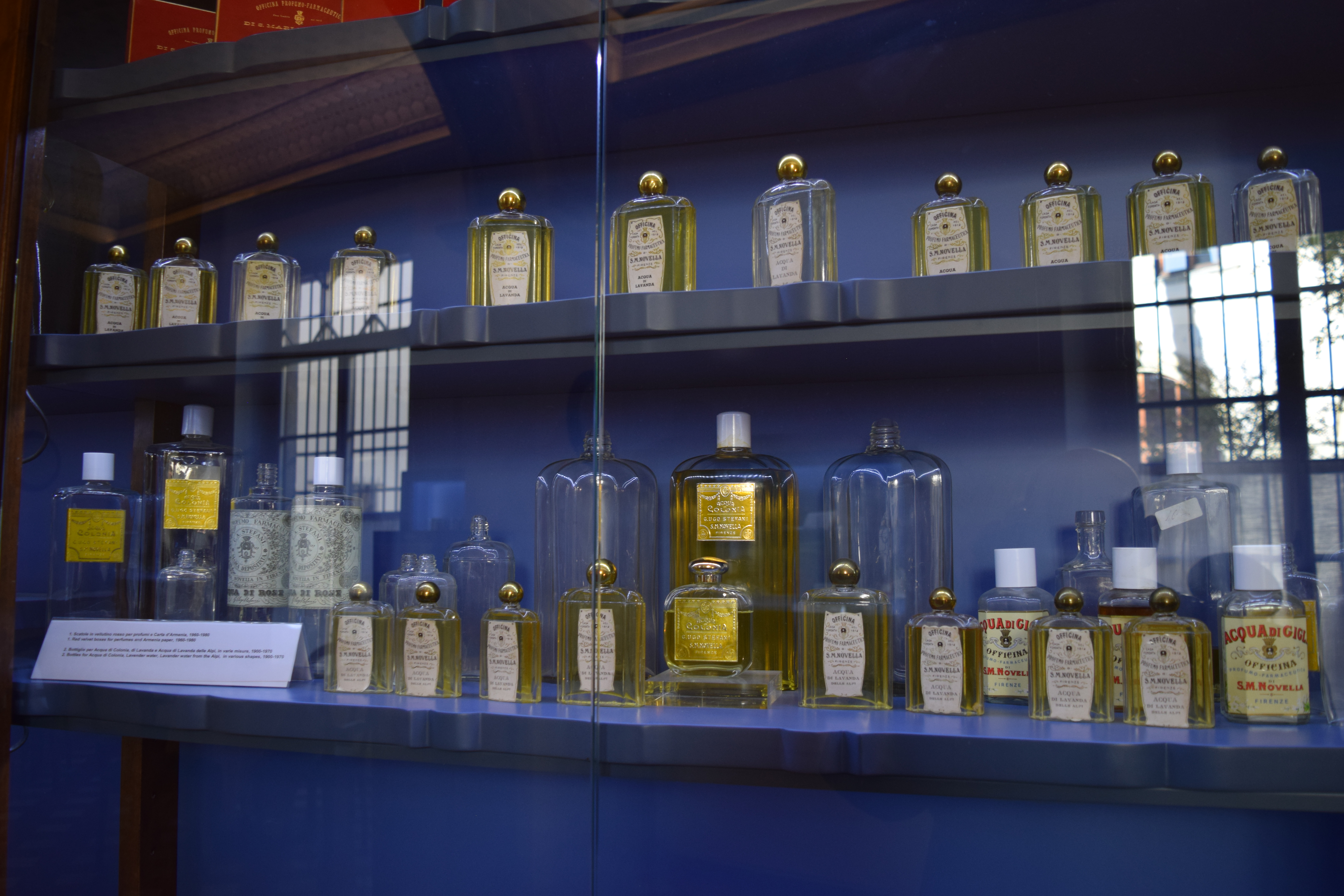 These are historic bottles on view in the museum portion of l'Officina Profuma Farmaceutica di Santa Maria Novella in Florence, Italy, near the ancient Santa Maria Novella church.